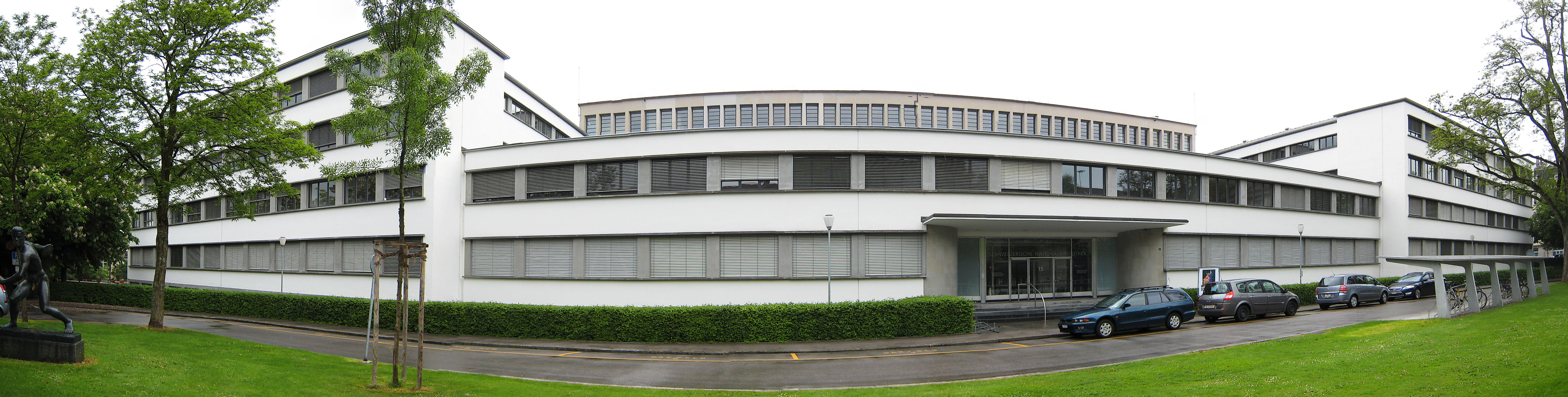 The building of the Swiss National Library and the Federal Office of Culture (FOC), Berne.